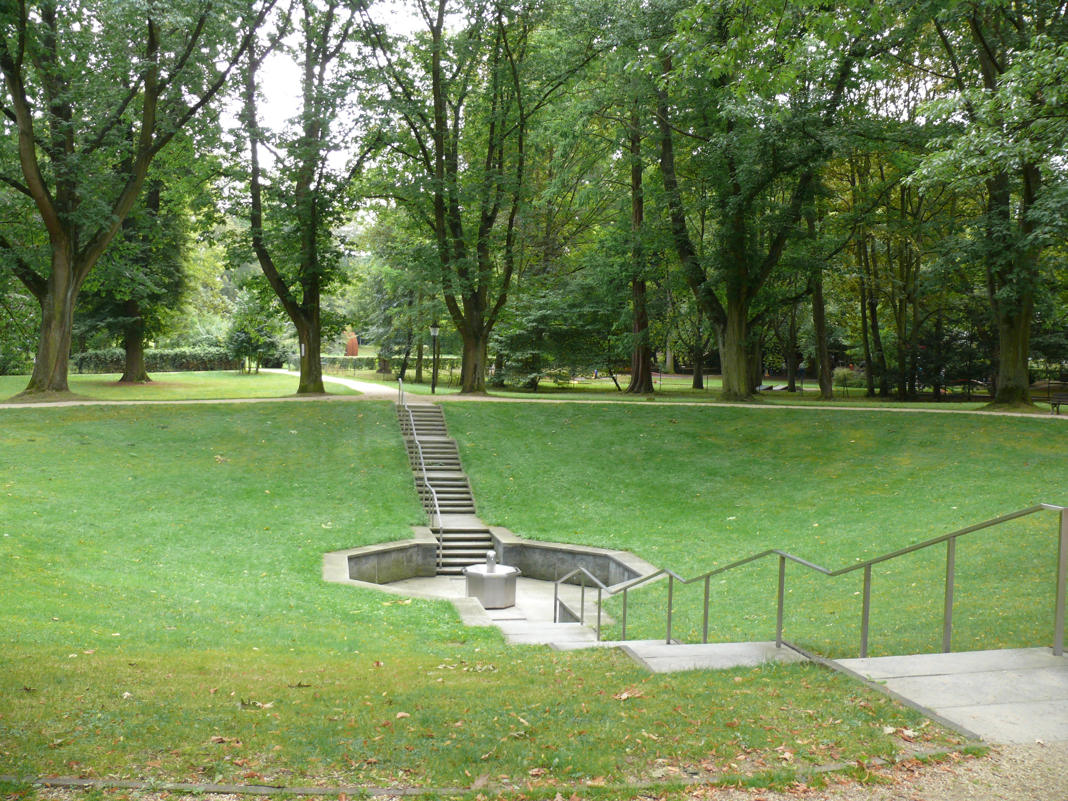 "Stahlbrunnen" (steel well) at "Kurpark" in Bad Homburg, Hesse, Germany